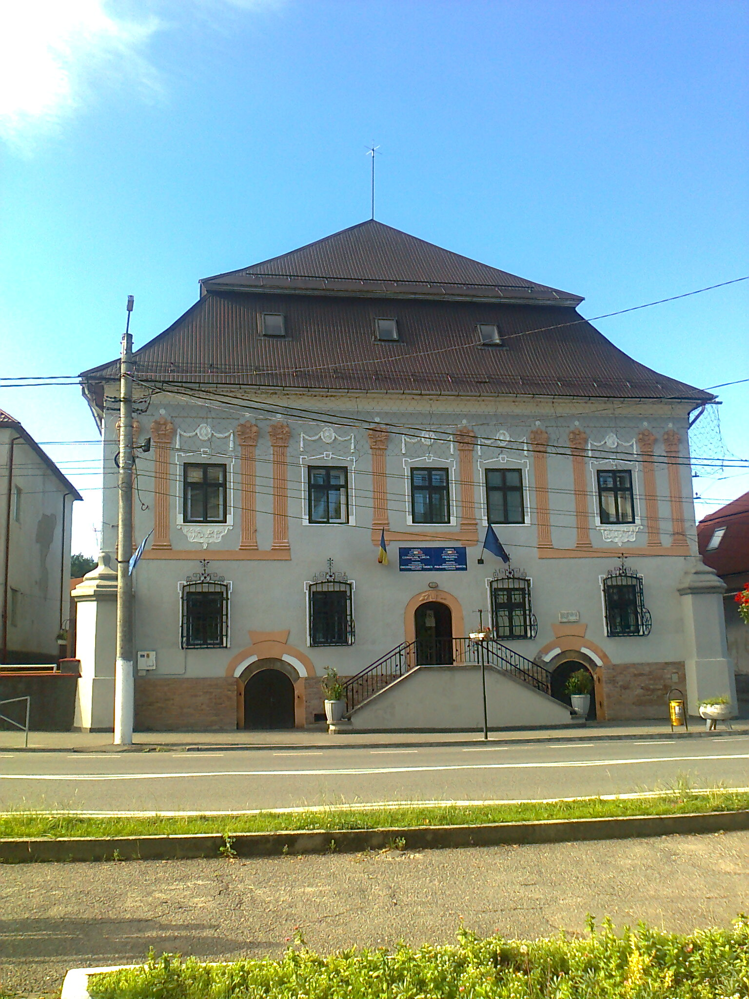 Baia Sprie - mayor's house(Romania)